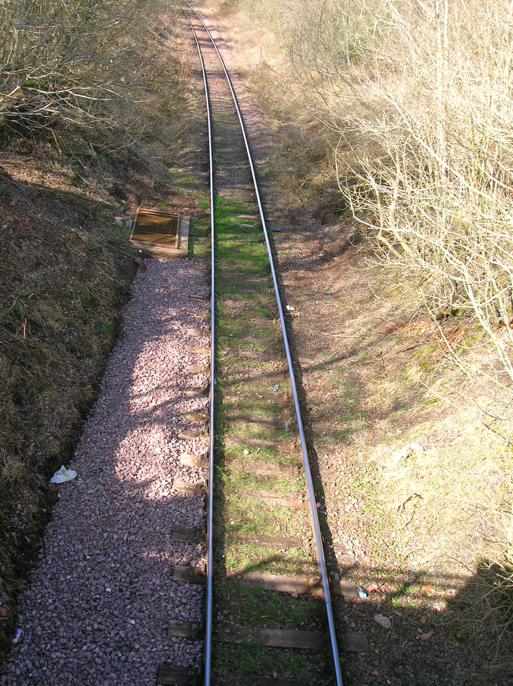 The site of Trabboch railway station, looking north, Ayrshire, Scotland.